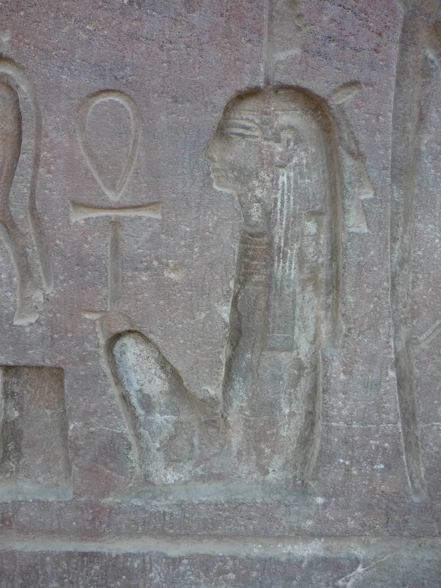 Relief, Luxor Temple, Egypt.